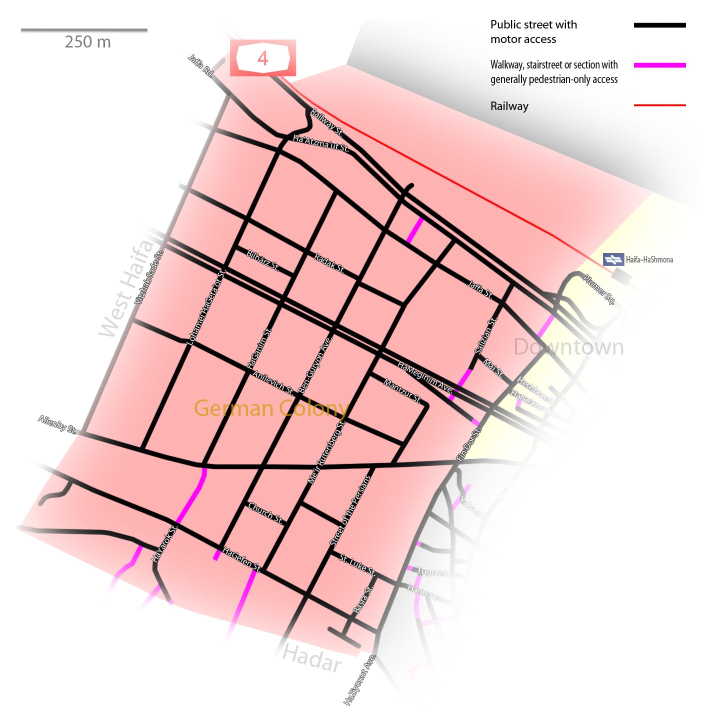 Central Haifa zone cut: the German Colony.